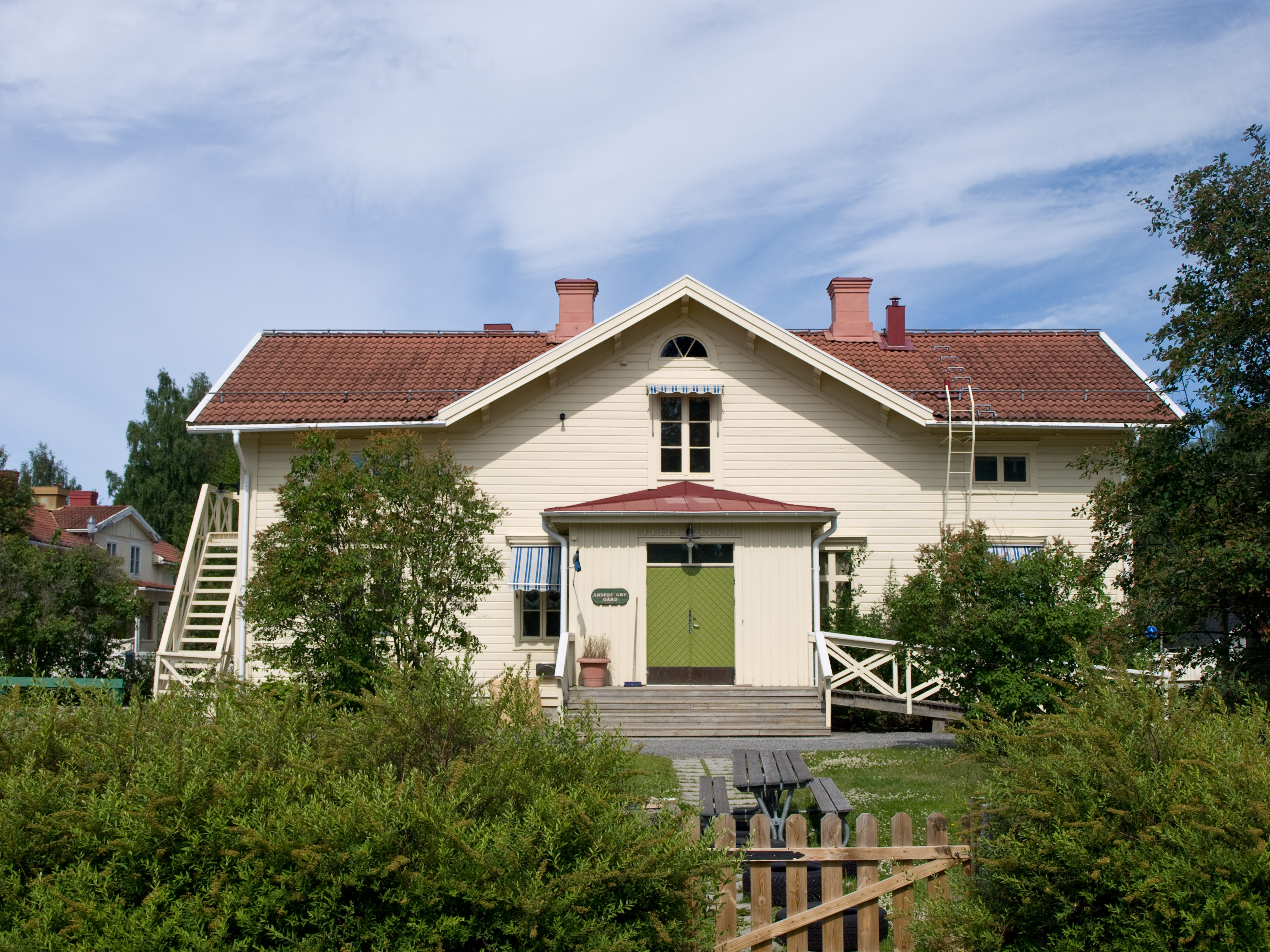 Anderstorpsgård in Skellefteå, Sweden.